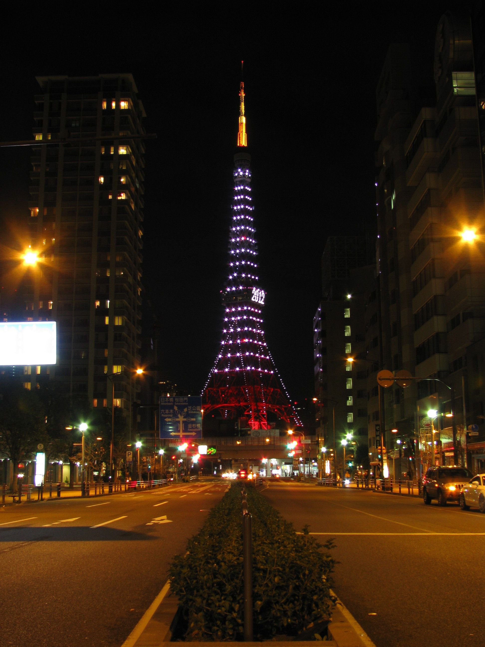 The Tokyo Tower is a communications tower. This location is from a Japan National Route 1 in Minato, Tokyo, Japan.